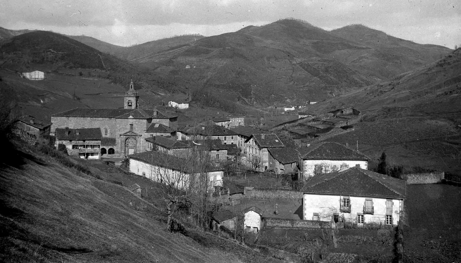 Partial view of Zegama (Gipuzkoa, Basque Country, Spain)